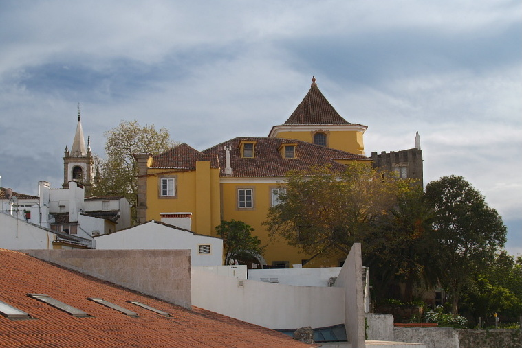 View of Palacio Amarelo and the cathedral belfries